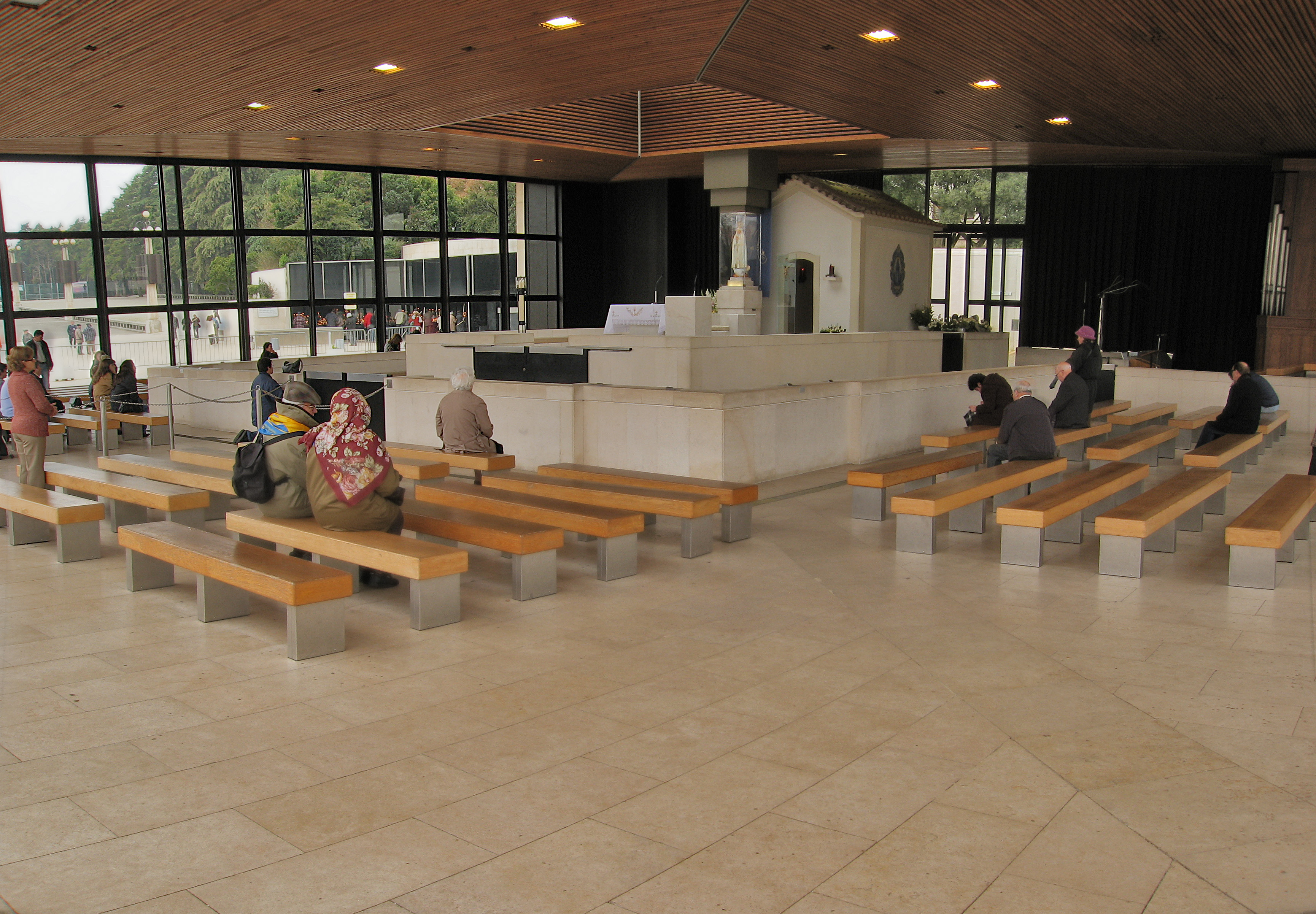 A Chapel at Fatima